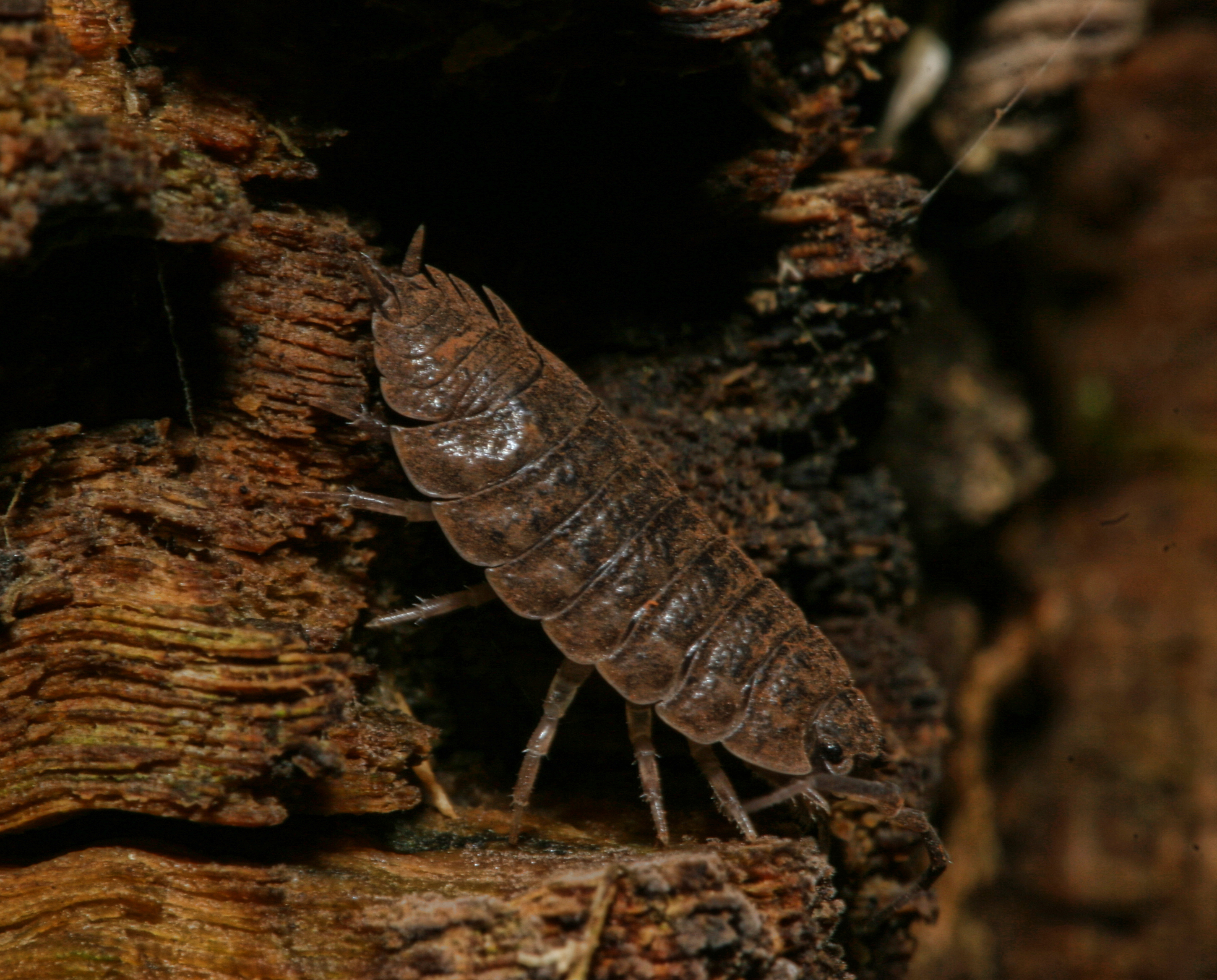 I was shooting slime mold fruiting bodies and he wandered by. It was interesting to see this critter run daintily among the little spore laden stalks. I noticed that the bug was careful with them, not stepping on the fruit, but weaving among them. I wonder if there is some unknown ecological relationship between them. Or maybe the simple life understands something about the environment.